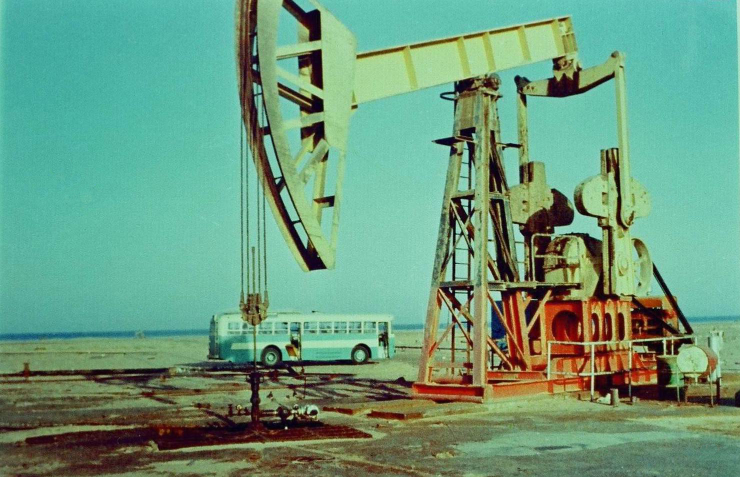 Transport in Israel